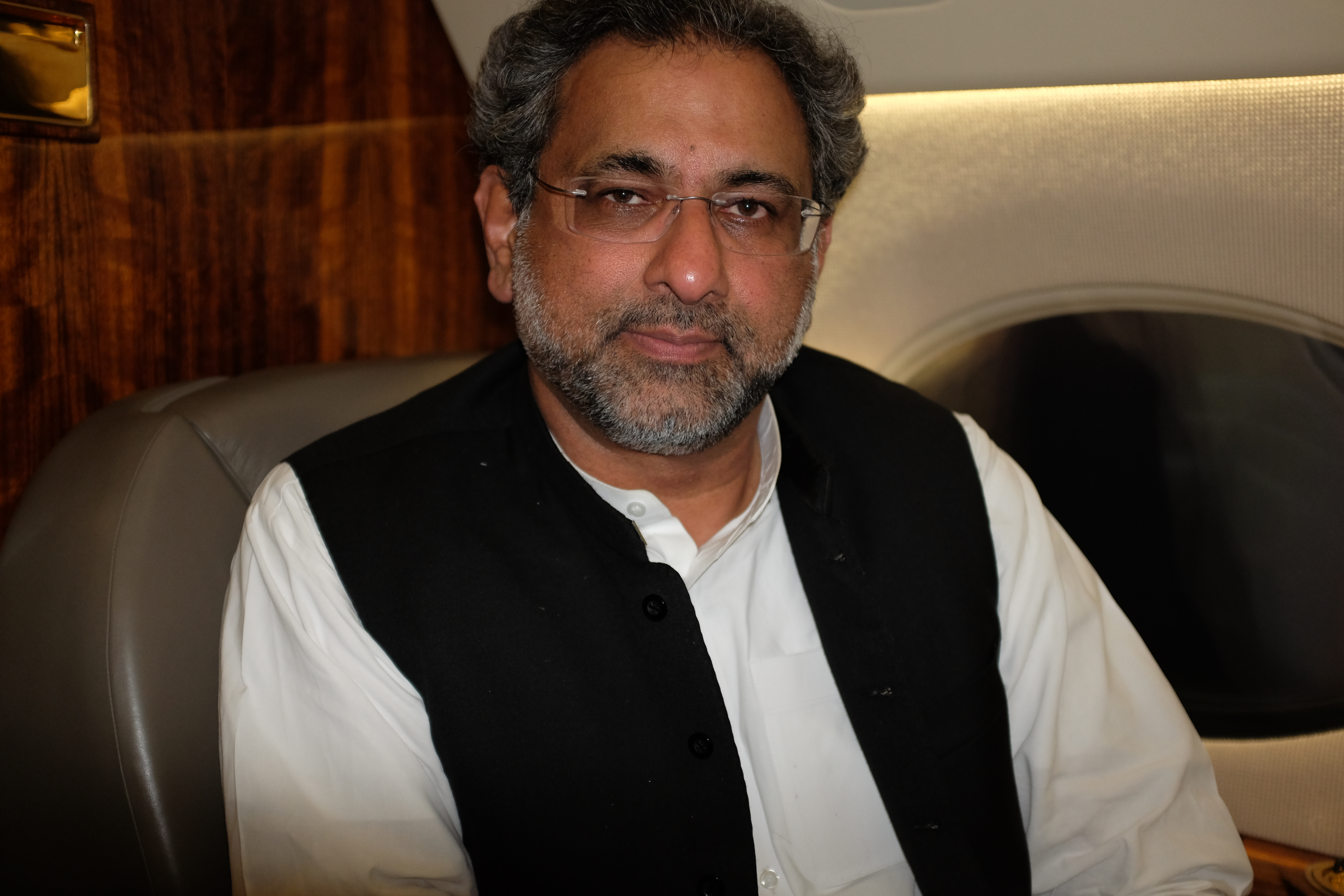 Shahid Khaqan Abbasi, 24th Prime Minister of Pakistan